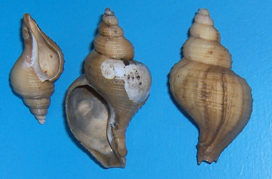 Neptunea contraria, a left-handed whelk; treated as a synonym of Neptunea antiqua (Linnaeus, 1758) in Howson & Picton (1997)